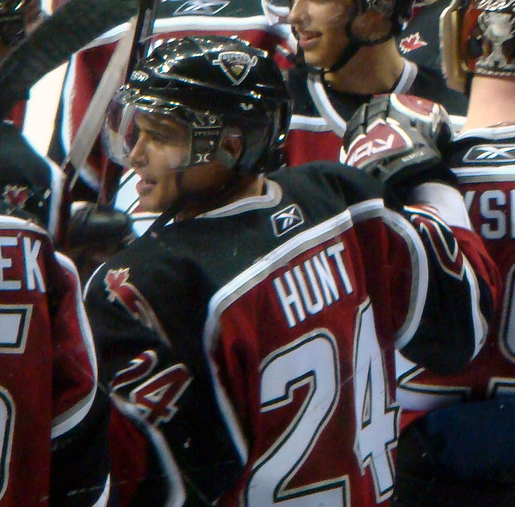 Garet Hunt with the Vancouver Giants in December 2007.